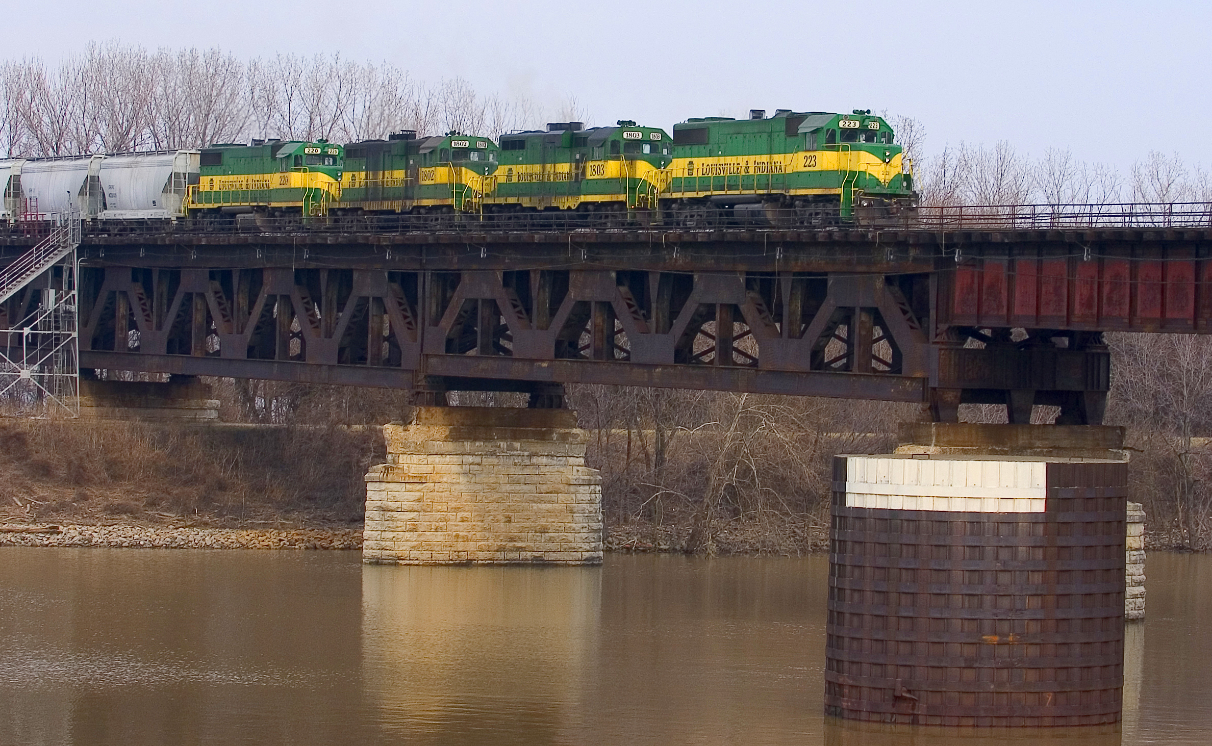 Louisville and Indiana train crossing the Portland canal. The north bound train is shown immediately prior to entering the vertical lift portion of the Fourteenth Street Bridge. From left to right: LIRC #220 (EMD GP38-2), #1802 (EMD GP11), #1803 (EMD GP11) and #223 (EMD GP38-2).